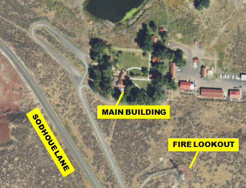 HQ complex of the Malheur National Wildlife Refuge, illustration by image uploader based on USGS satellite data Other information map has been modified by image uploader to add labels